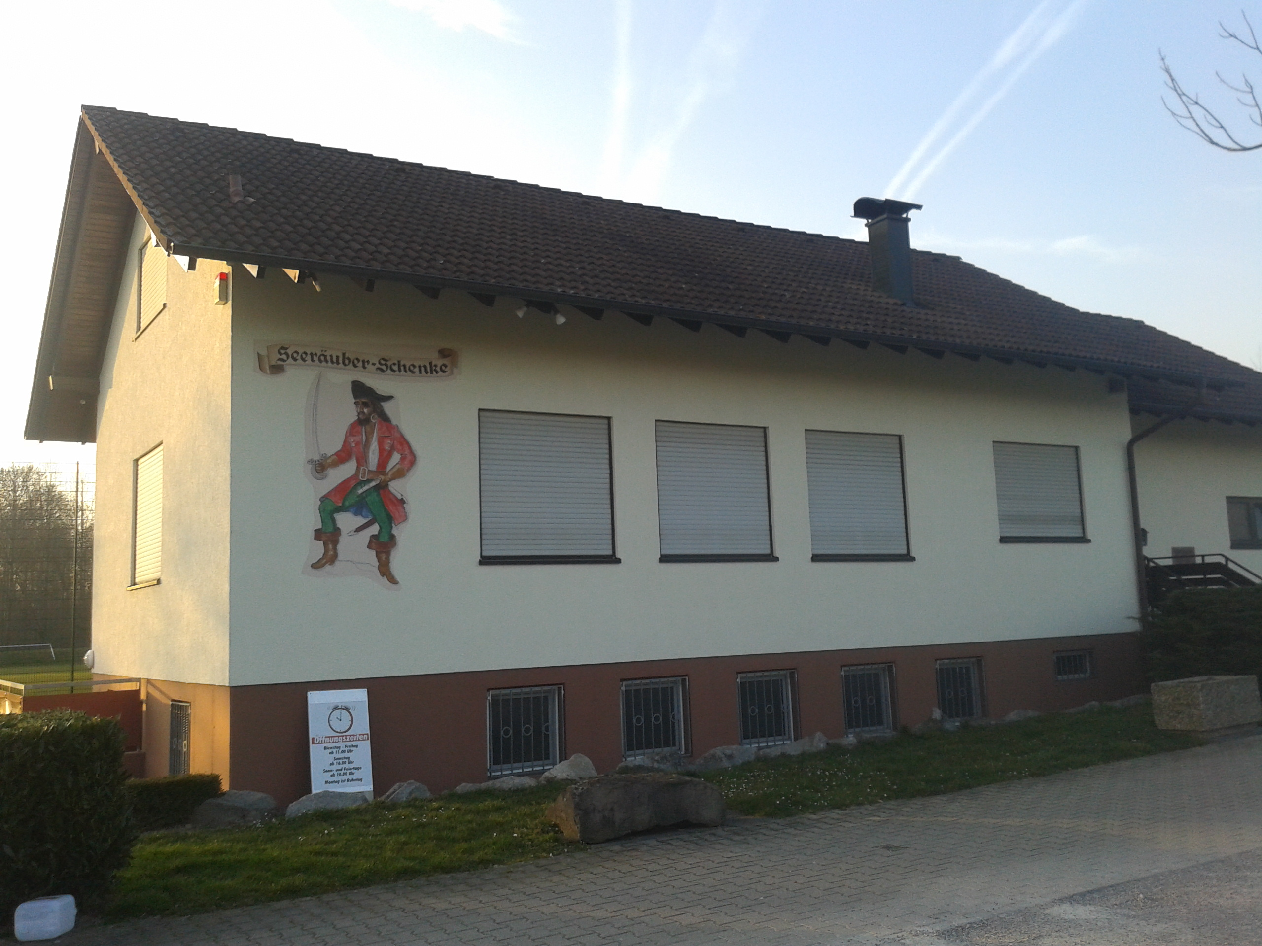 The picture shows the Seeräuberschenke in Kartung, Germany.